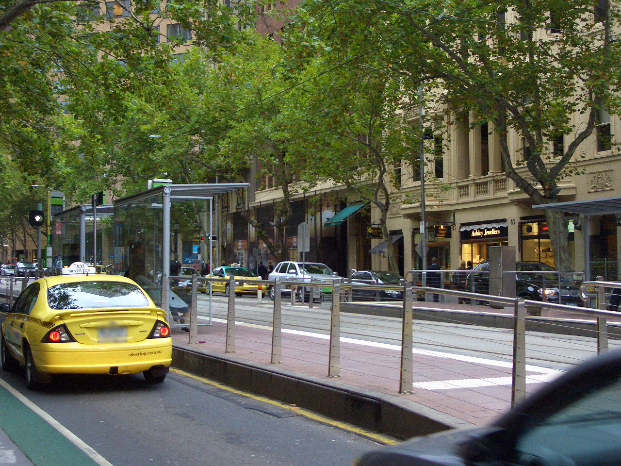 City内にある一般的なtram stop